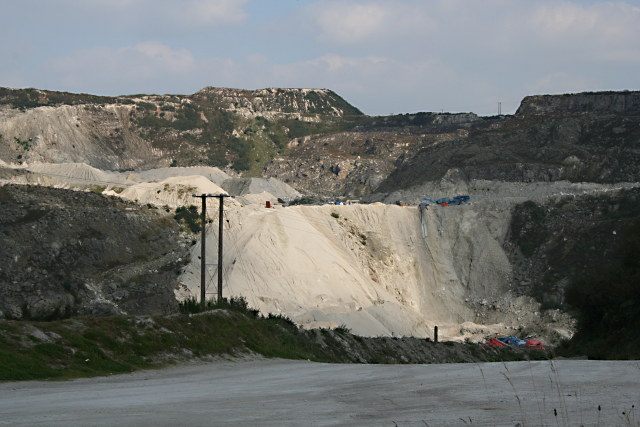 The Gunheath China Clay Pit I believe this pit is no longer used for china clay extraction but is used for processing aggregates from china clay waste.